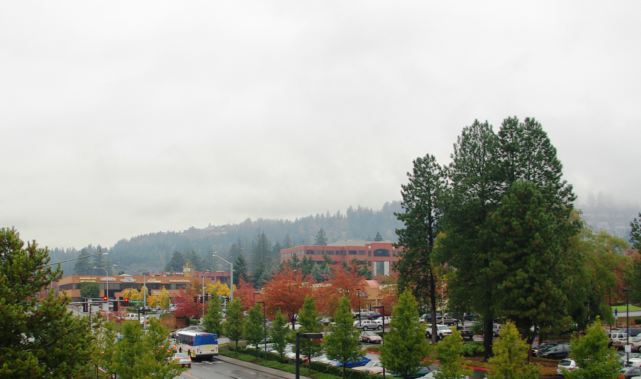 View of Sunnyside, Clackamas County, Oregon, from K.P. Sunnyside Medical Center looking north and slightly east towards Sunnyside Road (brick buildings near center are on Sunnyside).